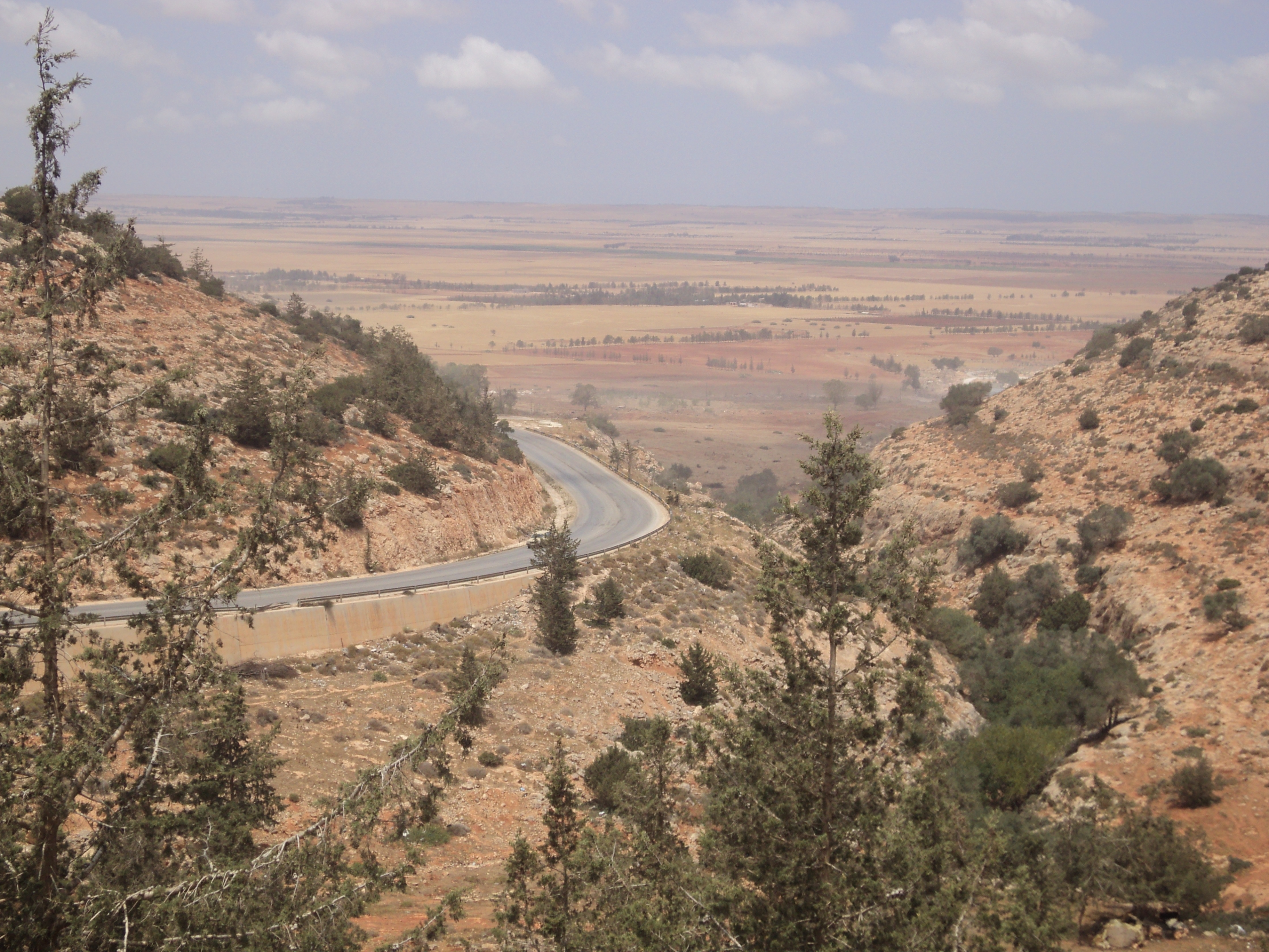 Part of Al Marj-Tacnis road on Al Marj escarpment (Shaliouni), in the Jebel Akhdar highlands, northeastern Libya.